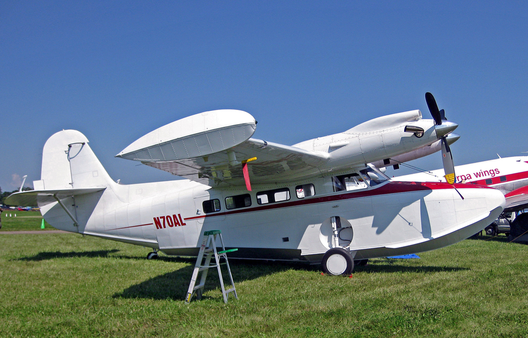 former Grumman Goose that was converted and re-certified as a new McKinnon G-21G Turbo Goose in 1970 with PT6A-27 turboprops, here displayed at Oshkosh Wisconsin